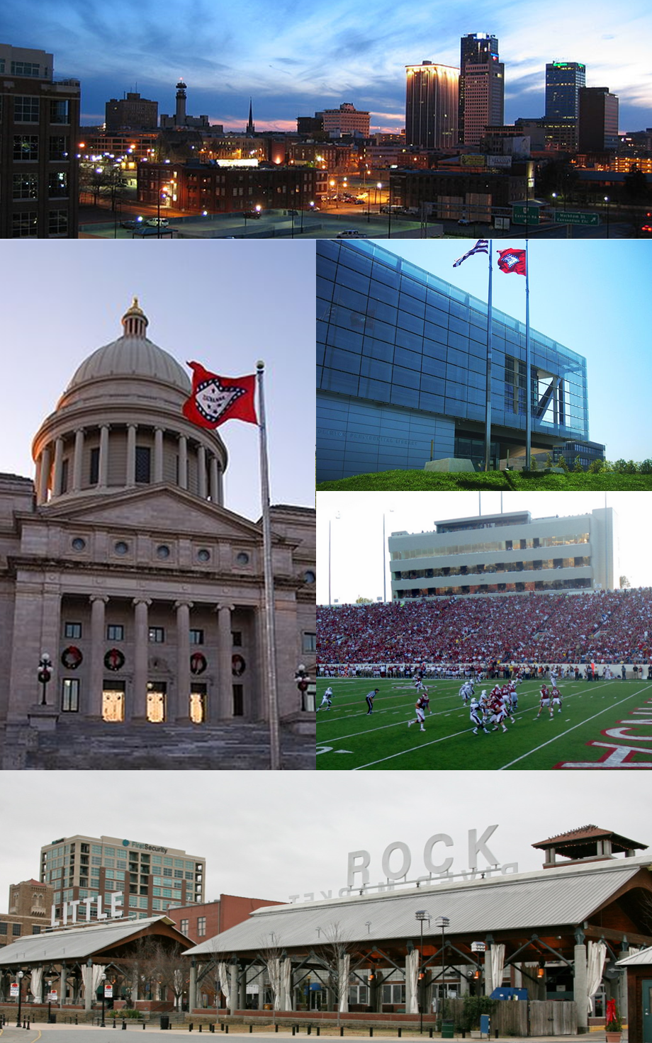 Collage of Little Rock